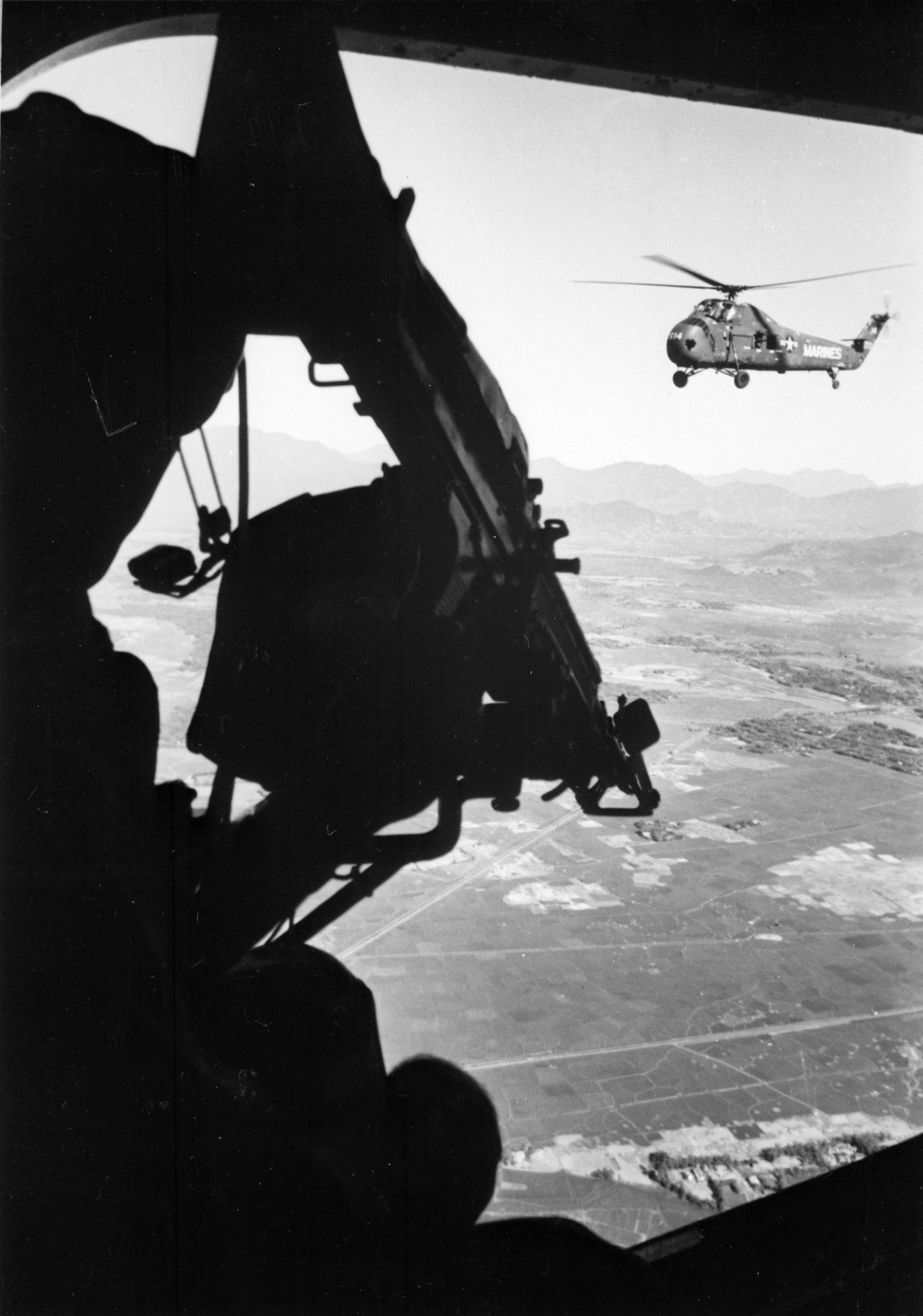 View out of the door gunner's position from a U.S. Marine Corps Sikorsky UH-34D Seahorse helicopter from Marine Medium Helicopter Transport Squadron 162 (HMM-162) over Vietnam, ca. 1965. The gunner's M-60 machine gun is in the foreground, another UH-34D in the background.